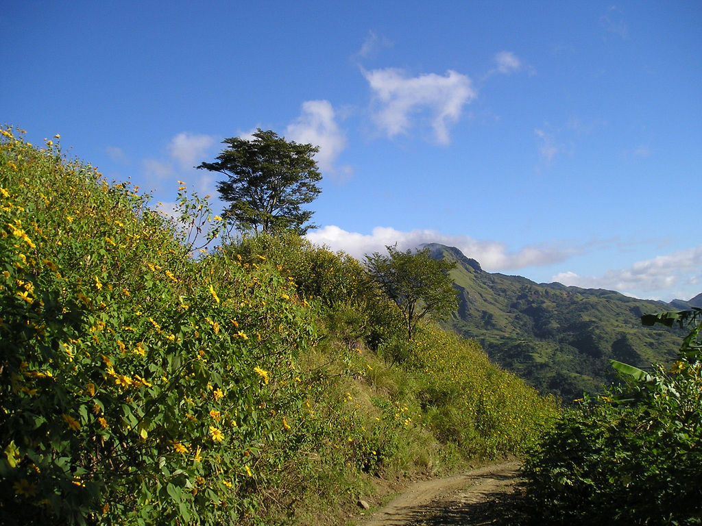 The way to Imoy Falls, Bucari, Leon, Iloilo, Philippines.